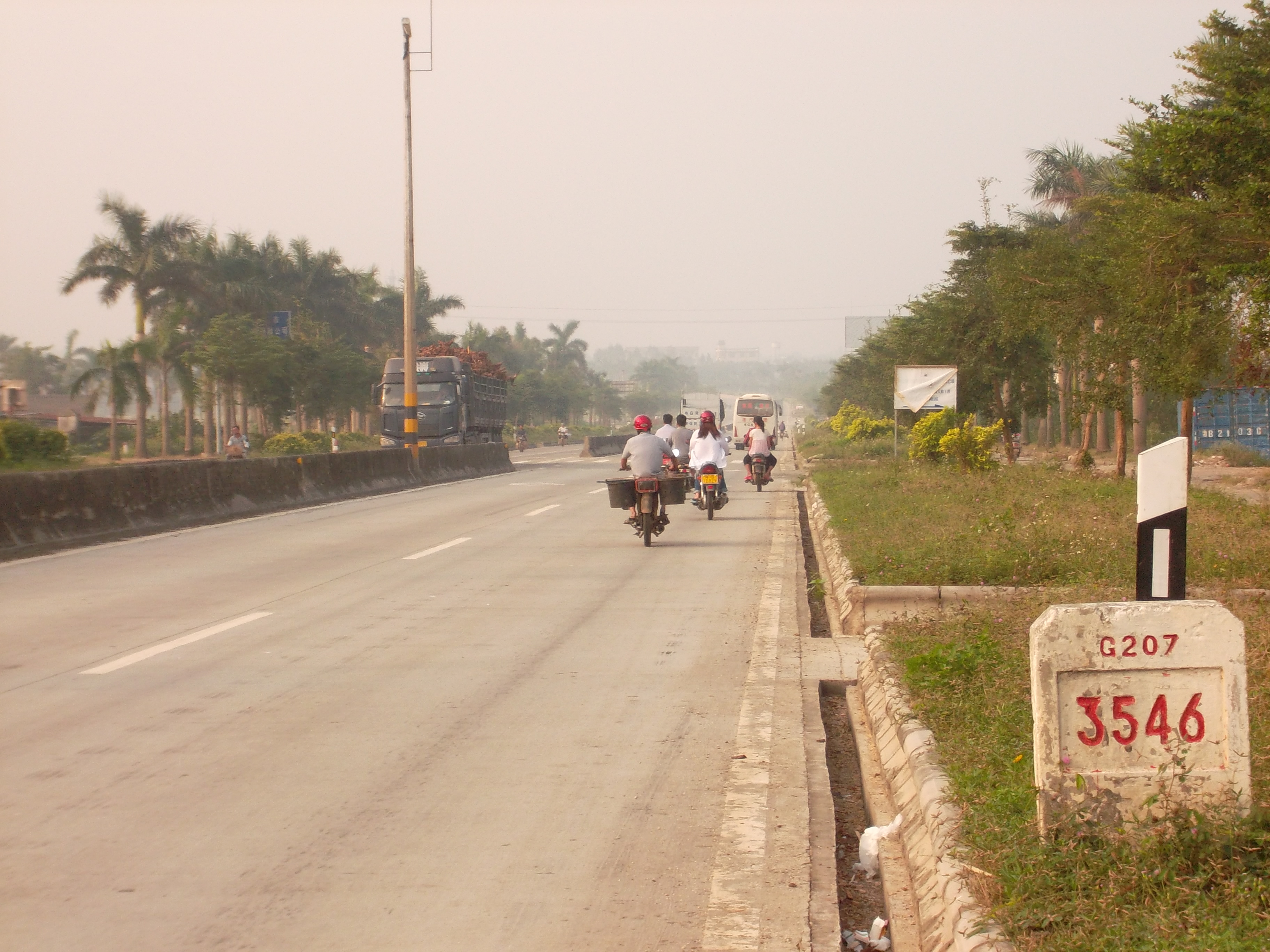 China's longest national highway G207 in Guangdong province.